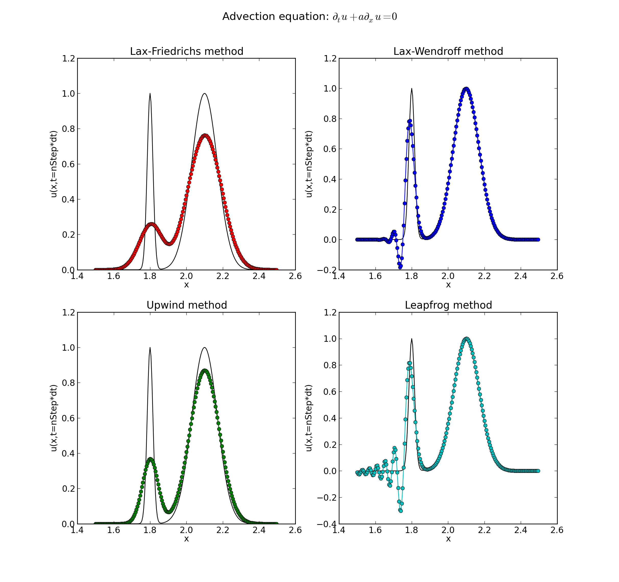 Comparison of different numerical solutions of the linear advection equation in 1 dimension in space and time obtained with the Lax-Friedrichs, Lax-Wendroff, Leapfrog and Upwind schemes.